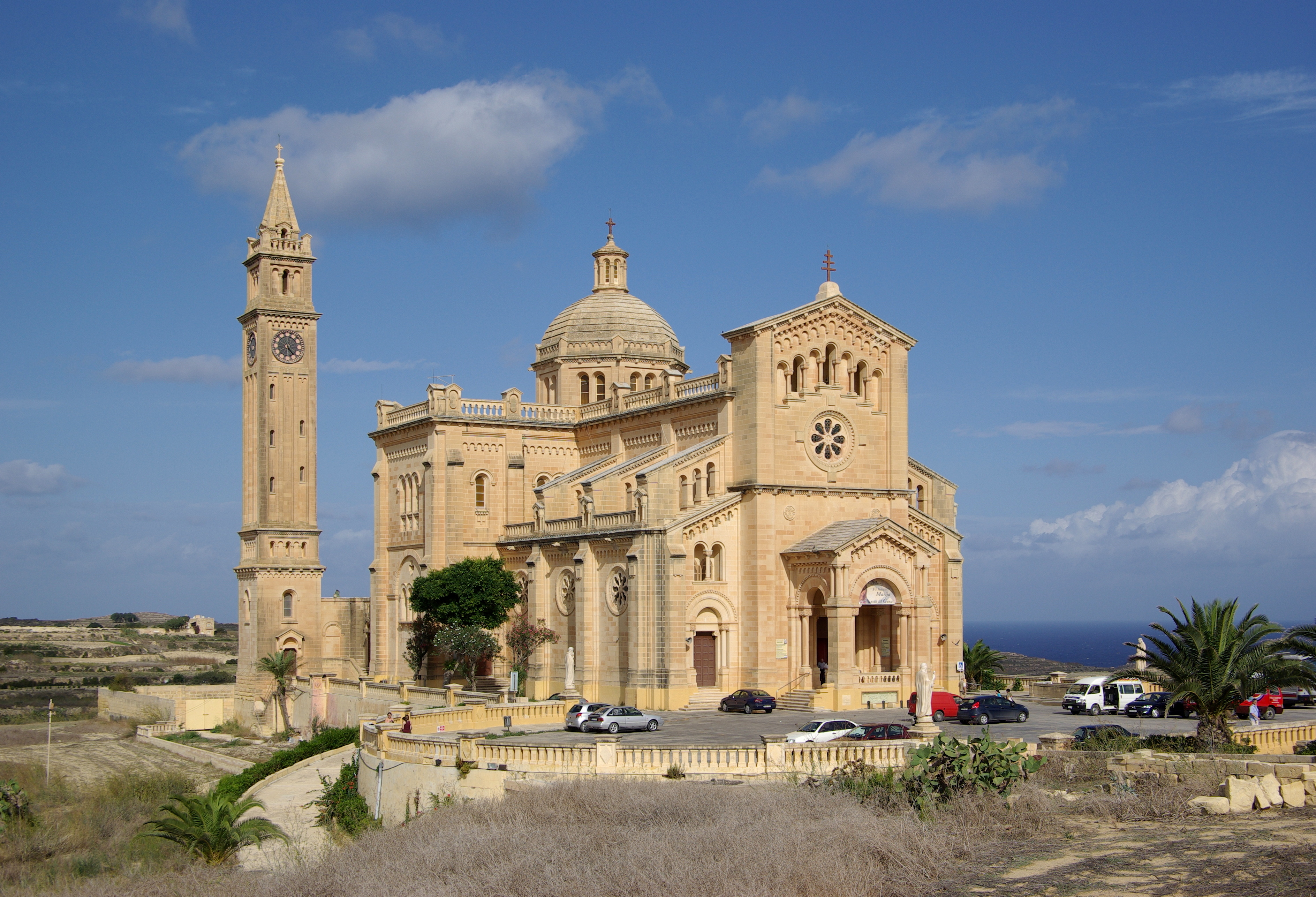 Malta, Gozo, Ta Pinu.